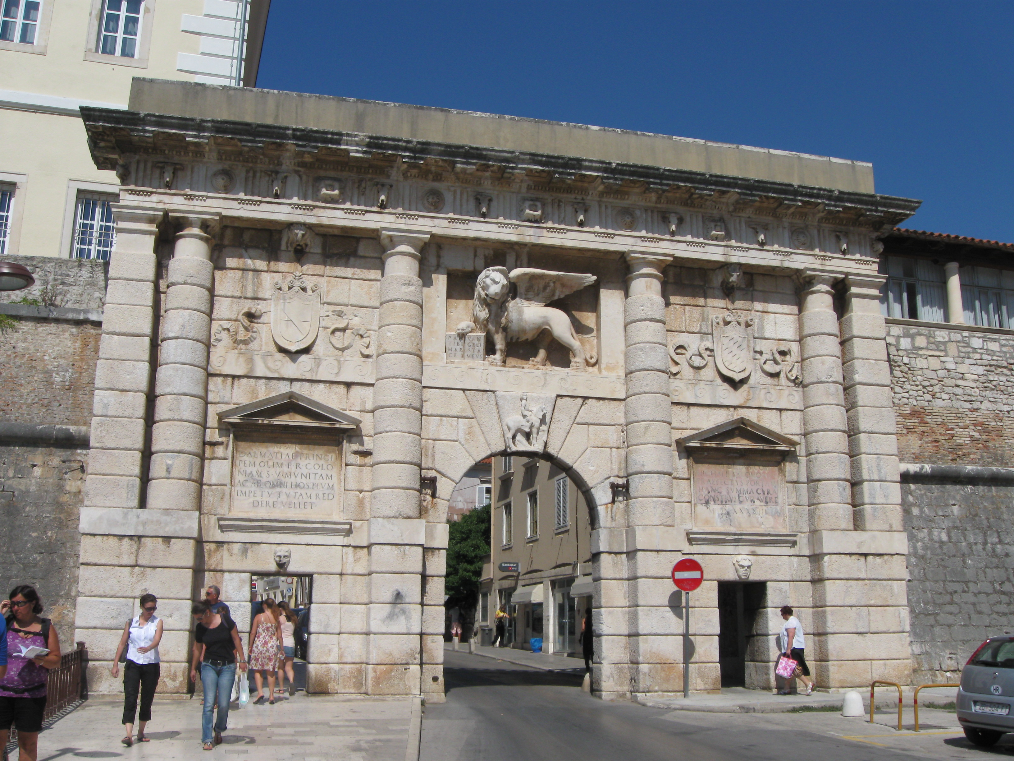 Zadar's "Kopnena vrata" (Landward Gate) with the Lion of Saint Mark, a symbol of the Republic of Venice, above them